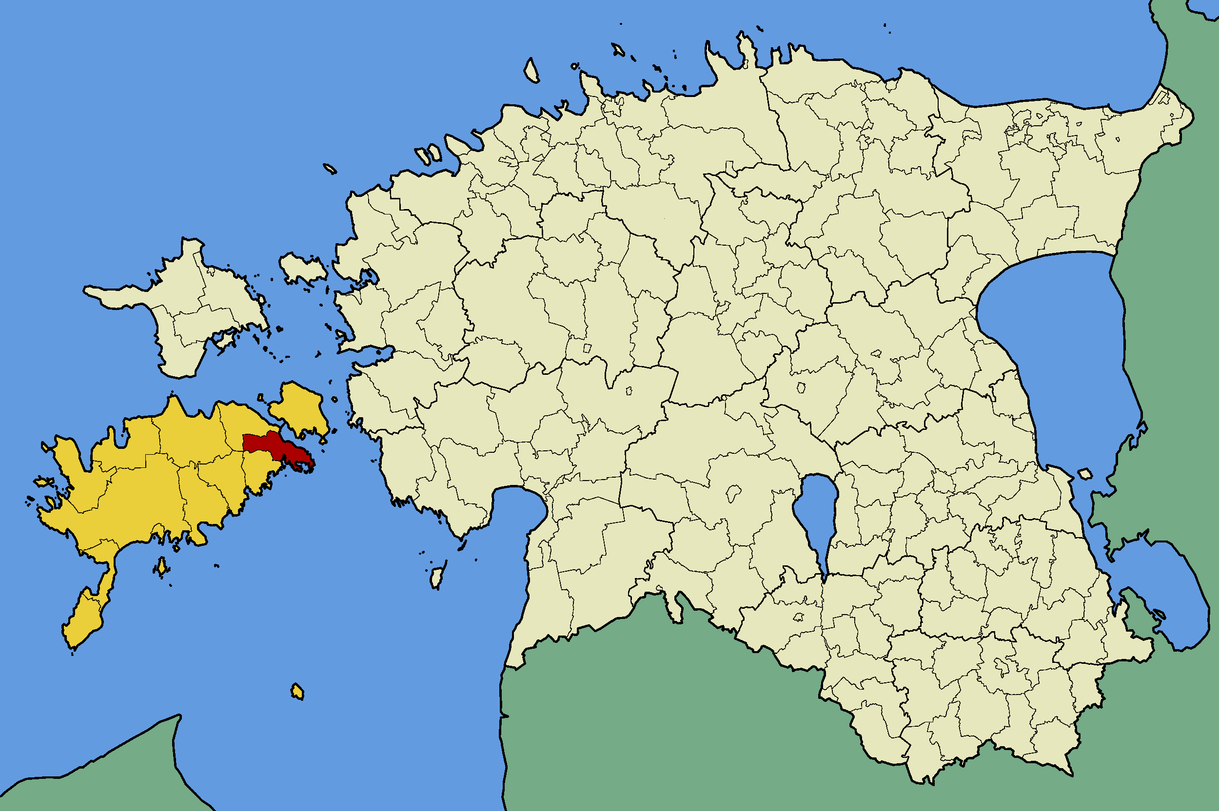 Map of Estonia with borders of municipalities (parishes). Saare county and Pöide municipality emphasized.